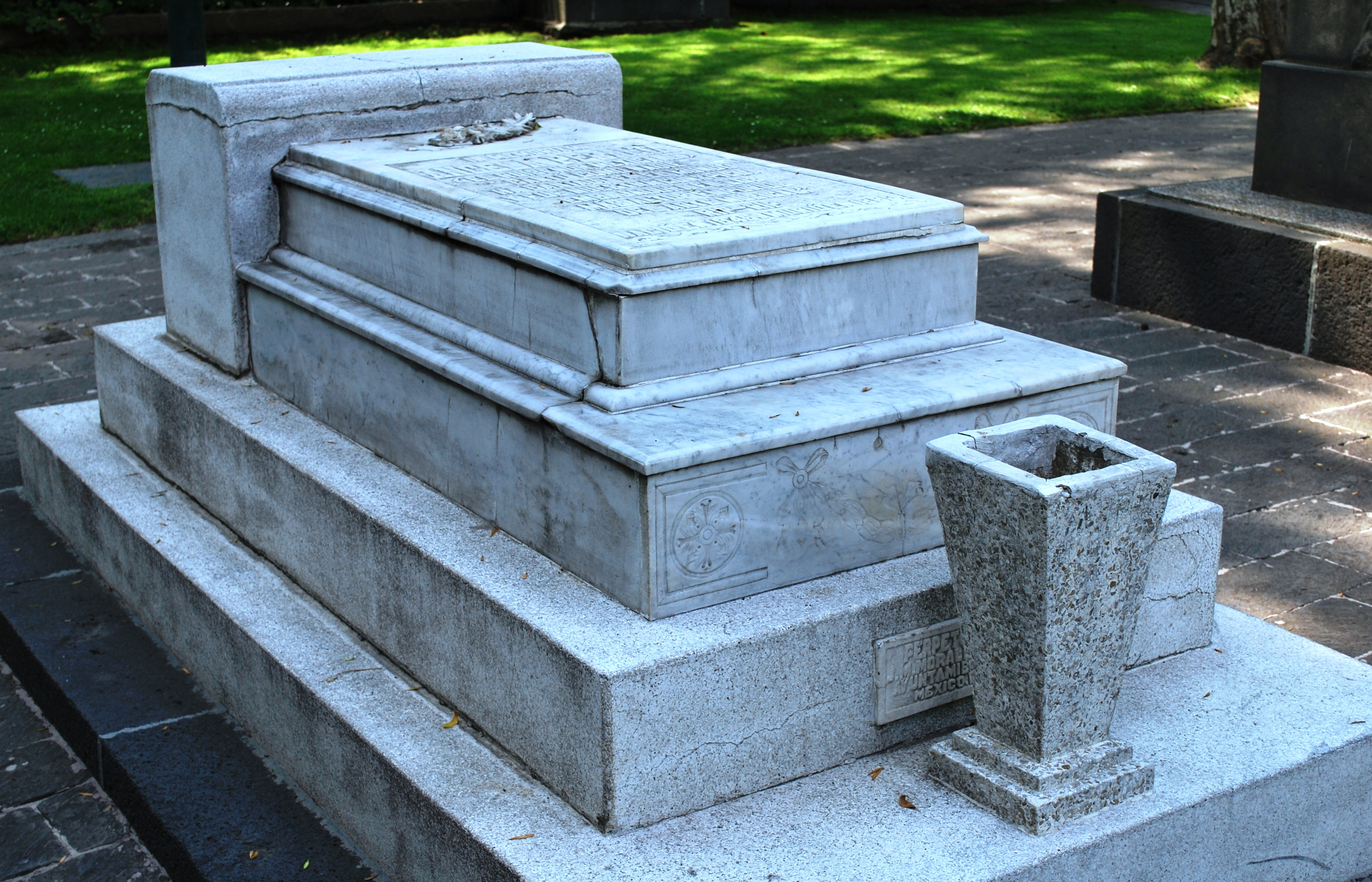 Tomb of Angela Peralta in the Panteon Civil de Dolores cemetery in Mexico City